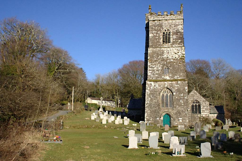 St Julitta's parish church, Lanteglos, near Camelford, Cornwall, seen from the west